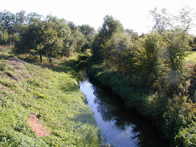 River Strine. View from the bridge looking south-west along one of the drains which drain this area of flat land.